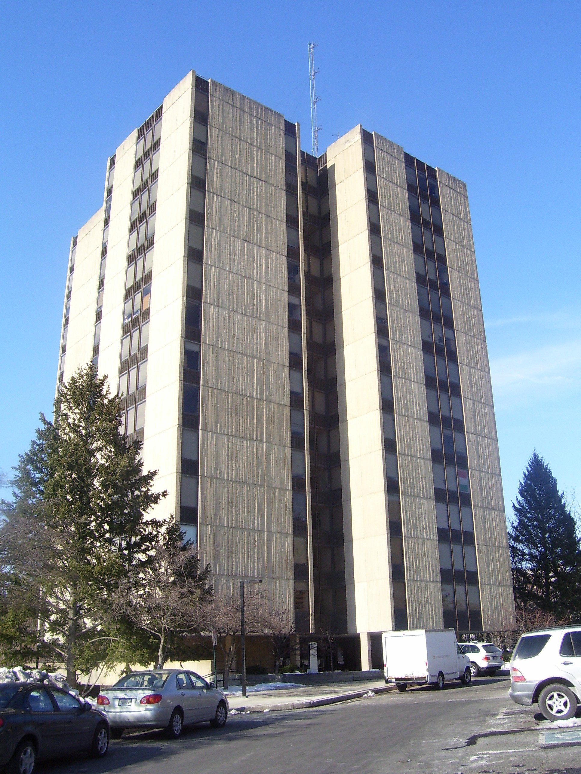 TU's high rise dorm, the Residence Tower.